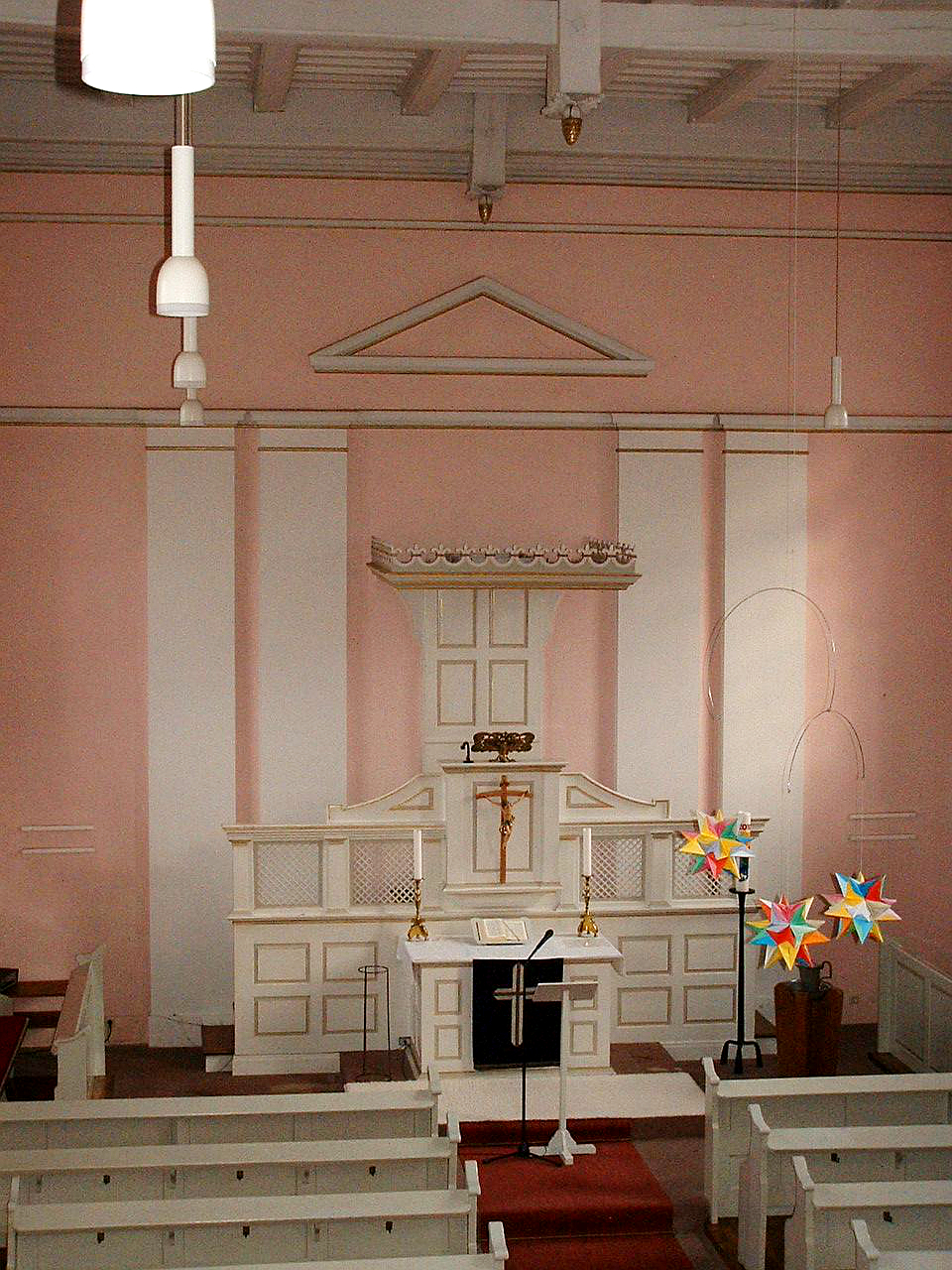 Protestant Church, Zuesch